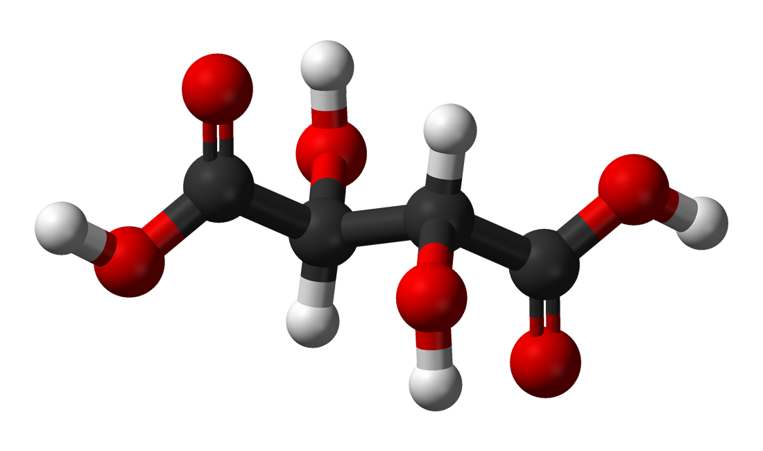 Ball-and-stick model of the dihydroxysuccinic acid molecule, tartaric acid. Made from File:DMSA-3D-balls.png, simply by pasting the blue channel of the image into the green channel.